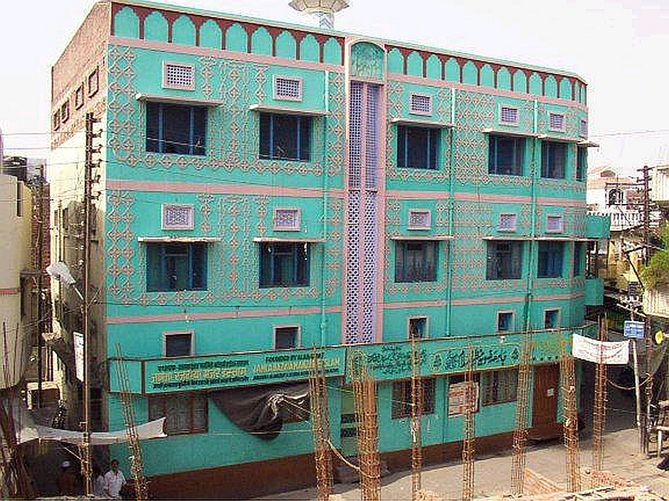 The Madrassa Manzar-e-Islam building in Bareilly, India